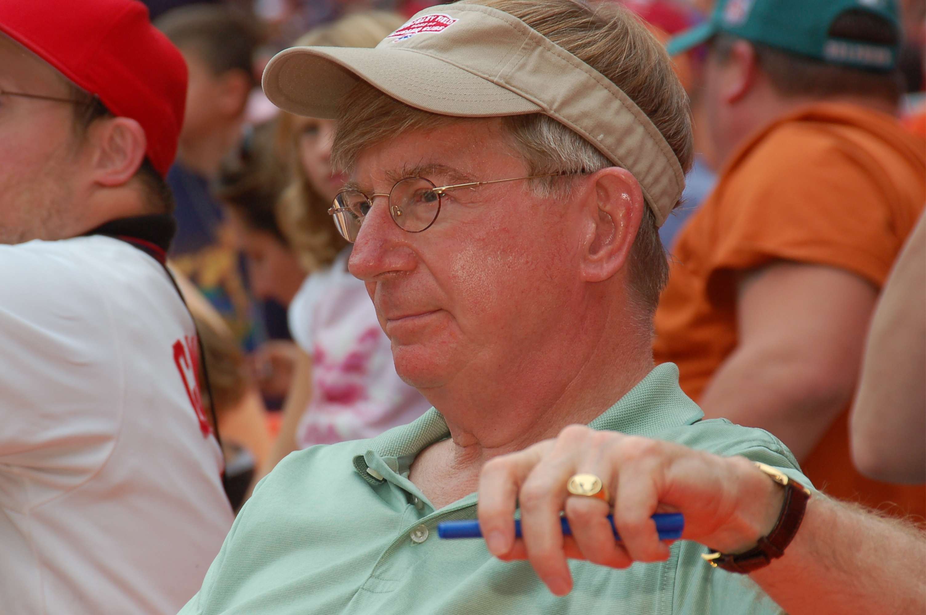 George Will takes in the game as the Washington Nationals defeat the St. Louis Cardinals at RFK Stadium on Labor Day, September 4, 2006